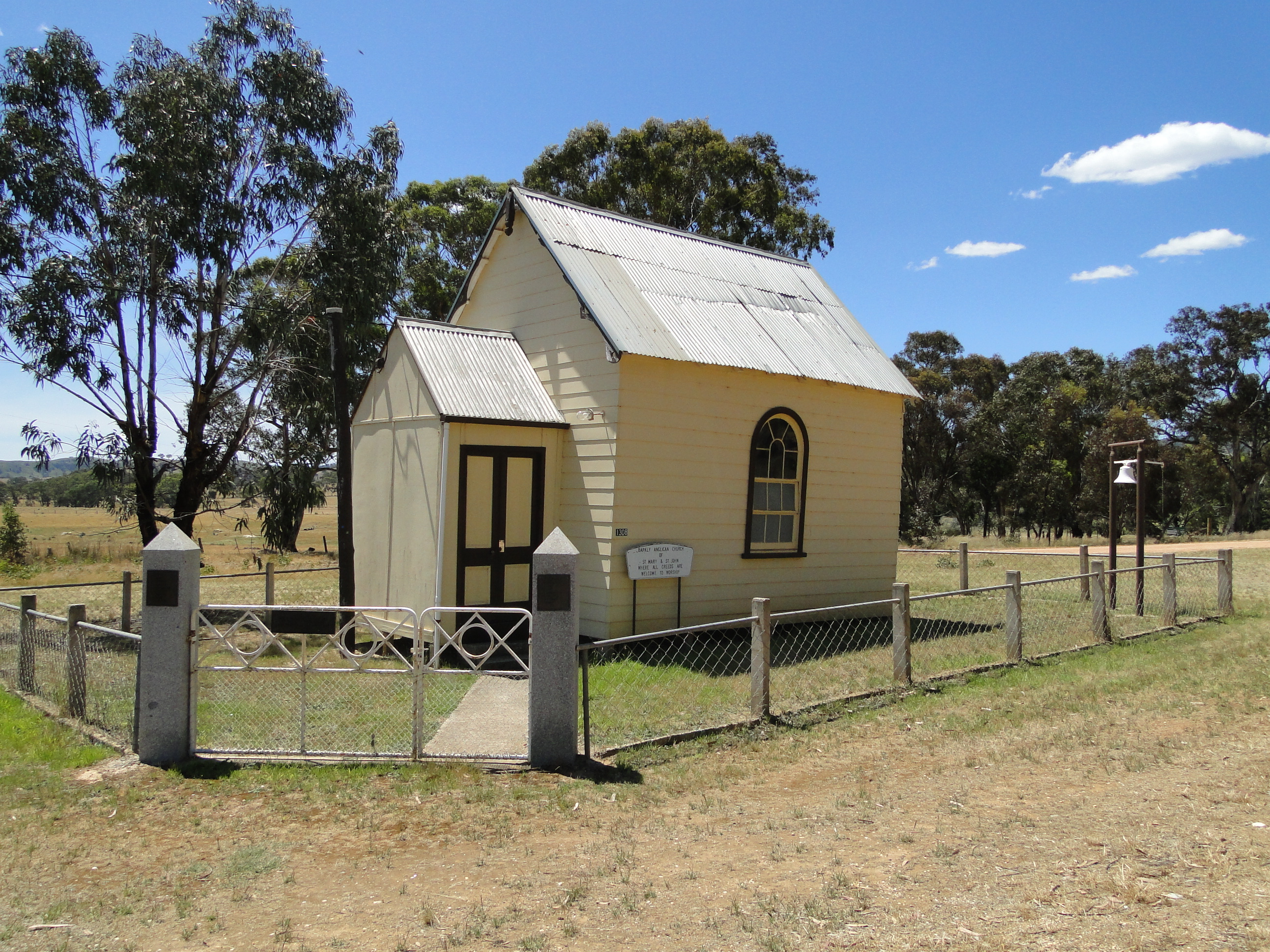 The Anglican church of St. Mary and St. John at Barkly, Victoria, Australia.